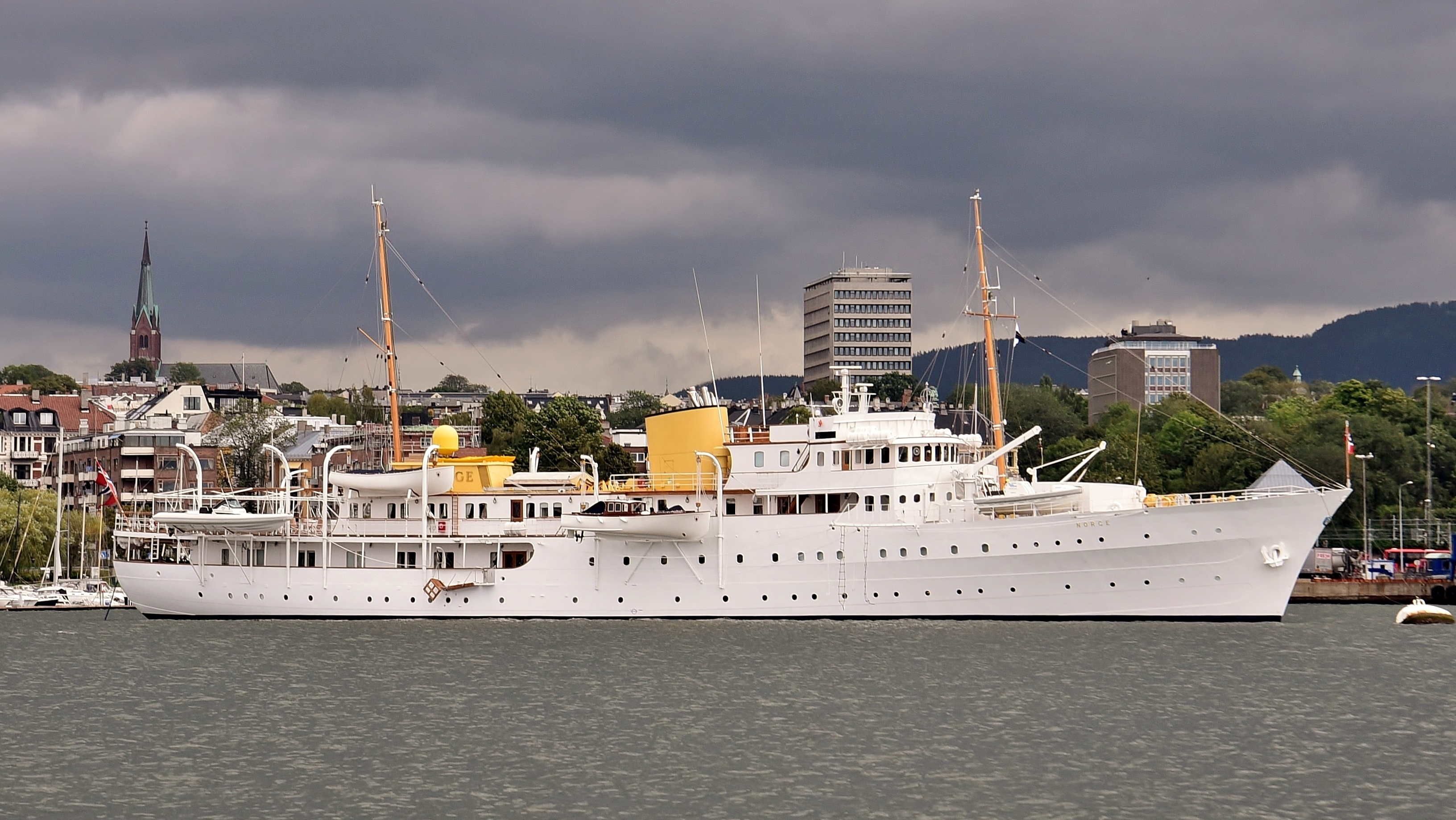 The Norwegian royal yacht HNoMY Norge at her mooring in Oslo harbour